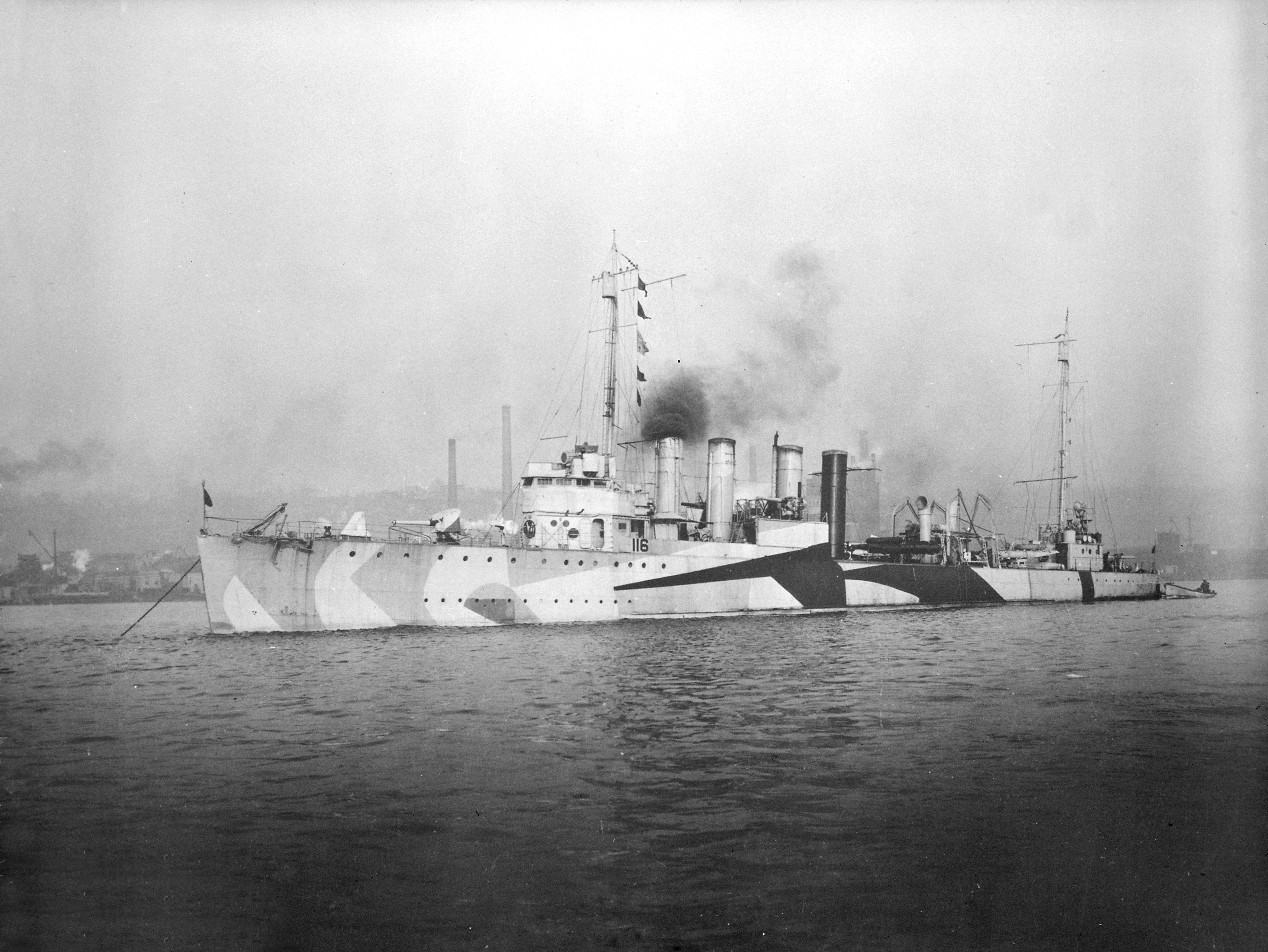 The U.S. Navy destroyer USS Dent (DD-116) on 27 December 1918.